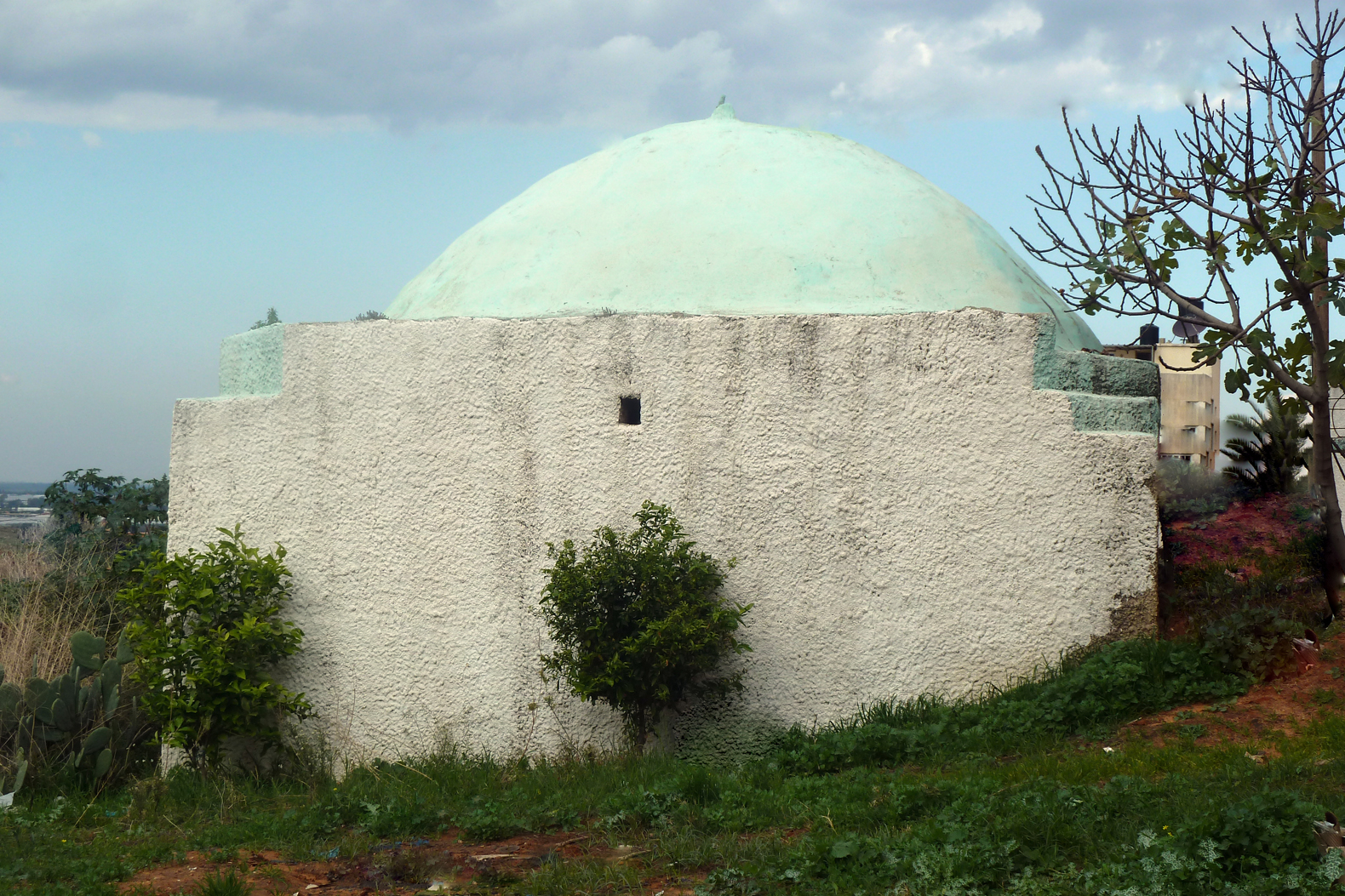 Makam al-sheikh Masood (burial places of biblical, Religion in Israel